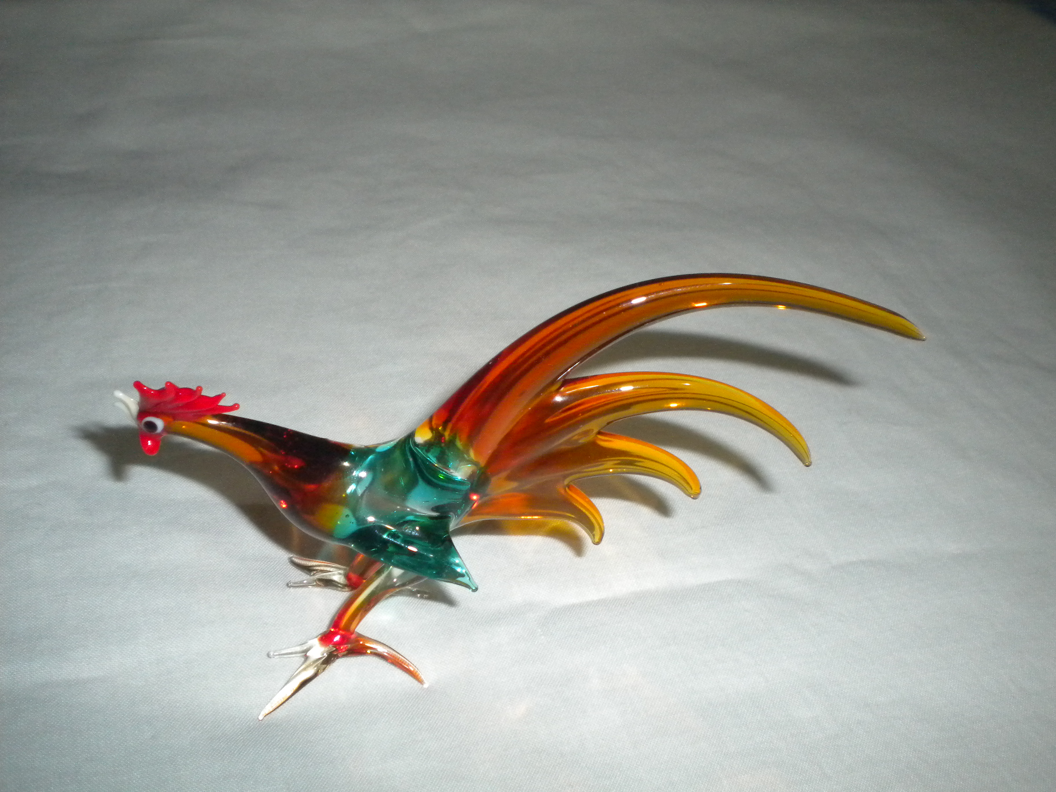 Glass Fowl, made in the glass section of the Deutsches Museum, Munich